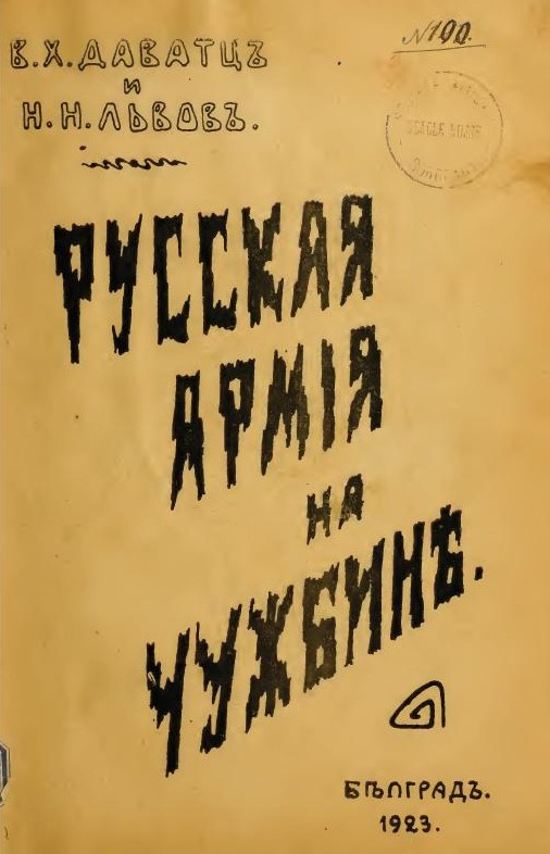 Book cover for Davatc. and n. Lvov, "Russian army in exile". Belgrade 1923 year.